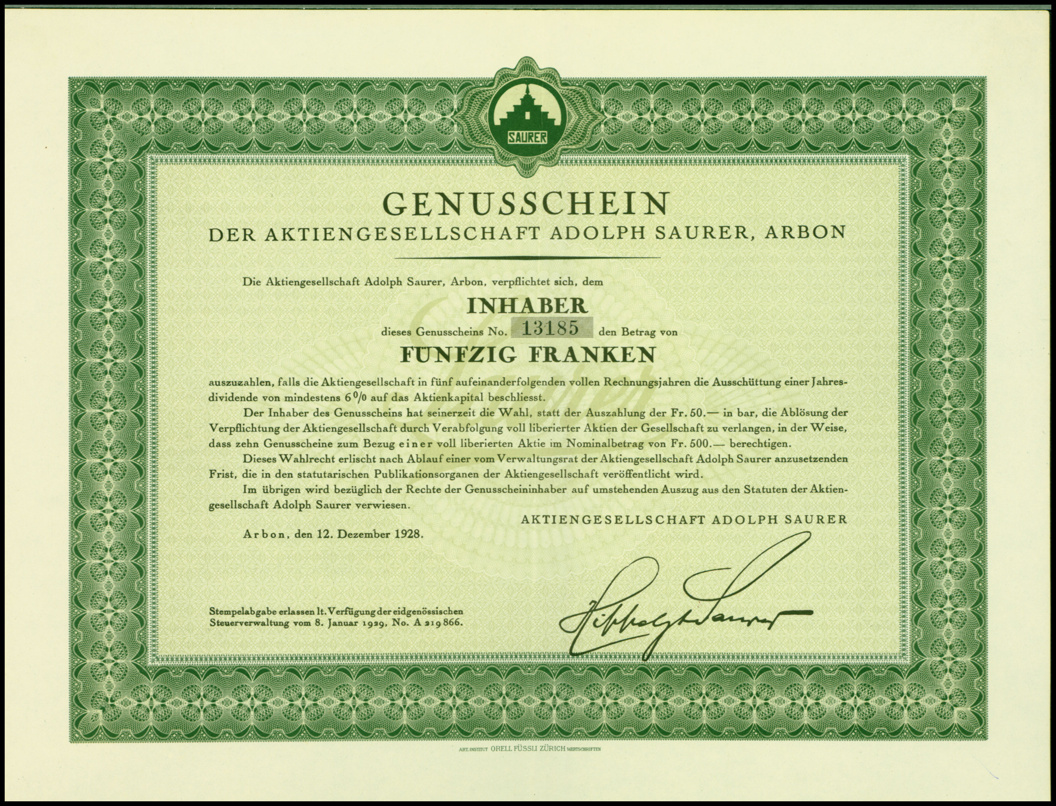 Bonus share of the Adolph Saurer AG, issued 12. December 1928